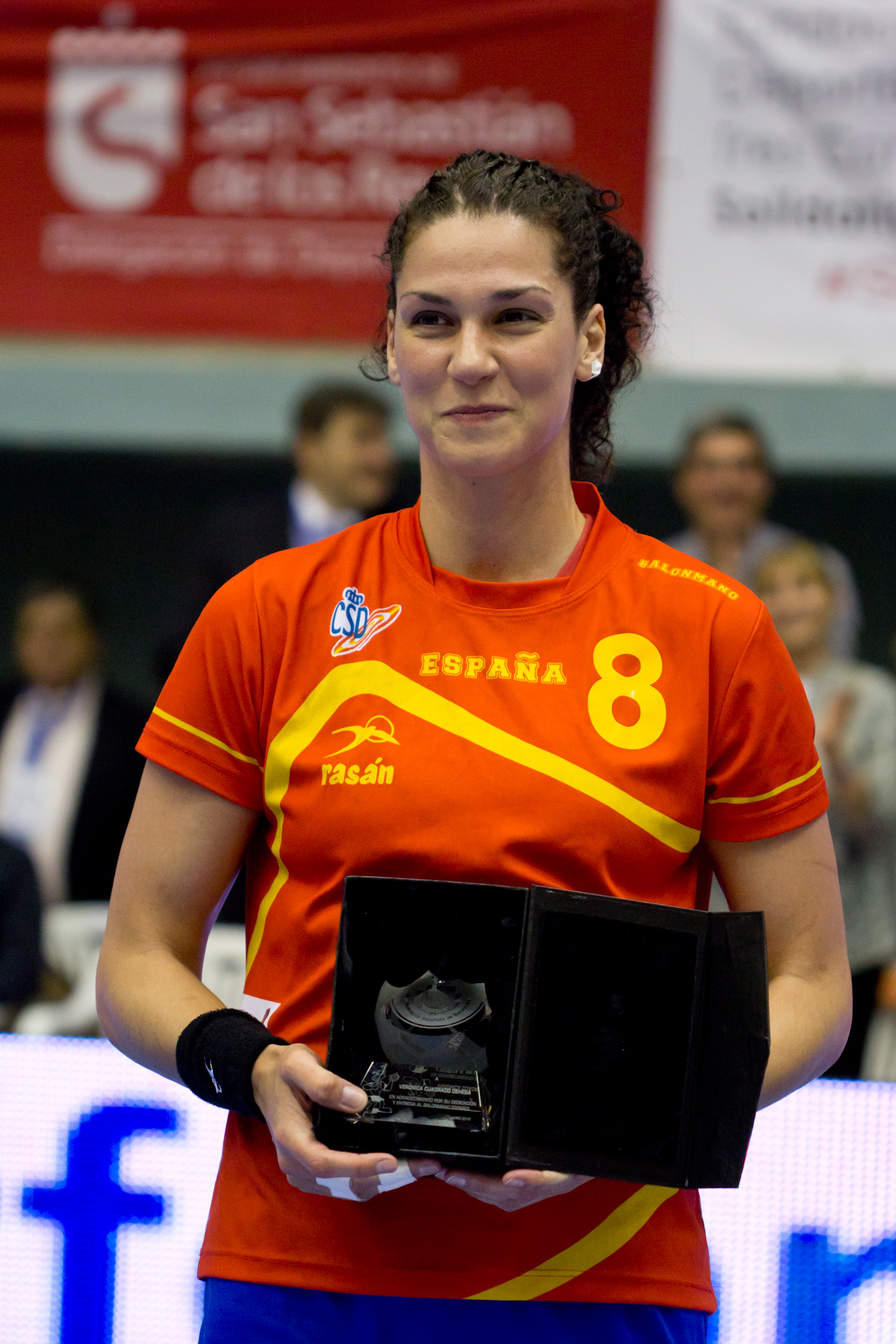 Farewell of Verónica Cuadrado from the Spain national handball team, at the Spain Handball All Star Game 2013, in San Sebastián de los Reyes, Madrid, Spain.